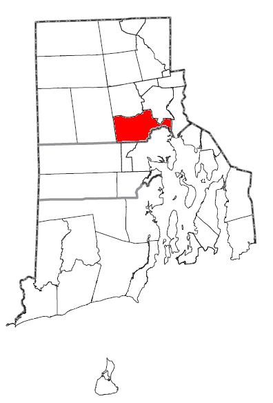 Map of the municipalities of the U.S. state of Rhode Island, with the city of Cranston highlighted in red.